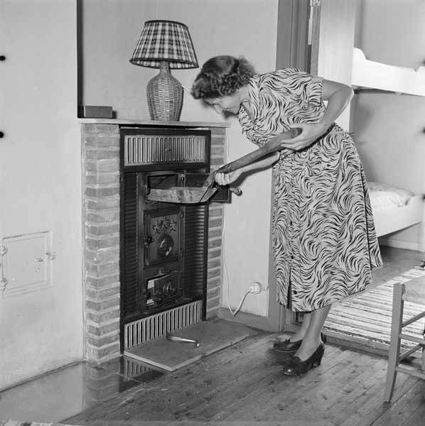 Refills of coke in the fireplace at family Sverdrup i Grotteveien på Bekkelaget, Oslo, Norway in 1956. The photograph Rigmor Dahl Delphin (1908-1993) was employed as a photographer in the magazine All Women. Her negative archive was in 2005 transferred Oslo City Museum of Gyldendal Norwegian publisher who was publisher of the magazine.